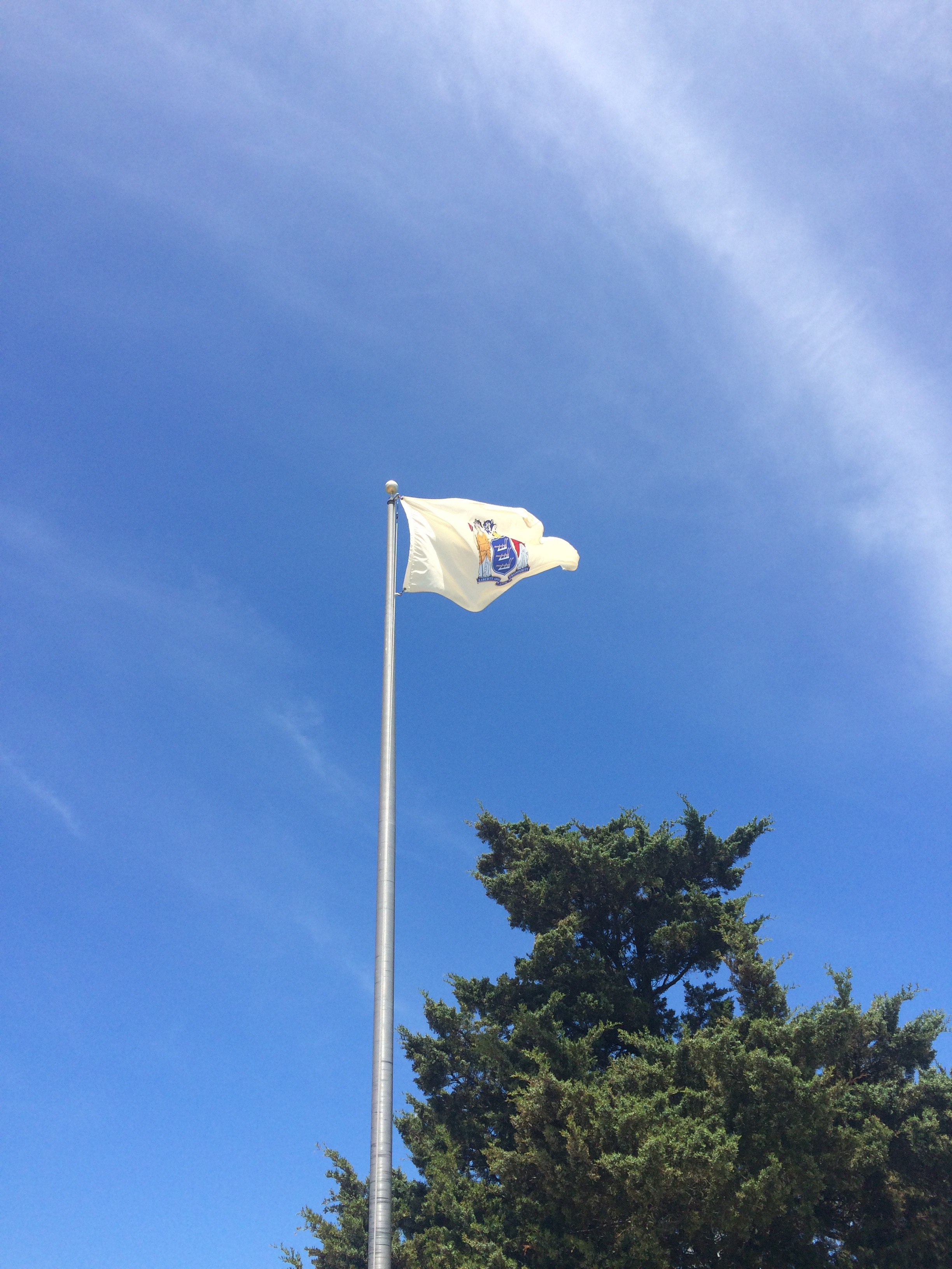 The New Jersey flag at the base of the Cape May Light